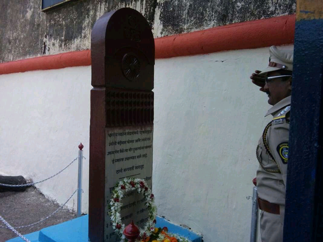 Marathi police officer saluting Raghoji Bhangre